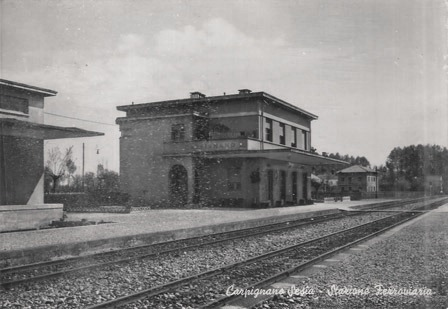 Carpignano, railway station